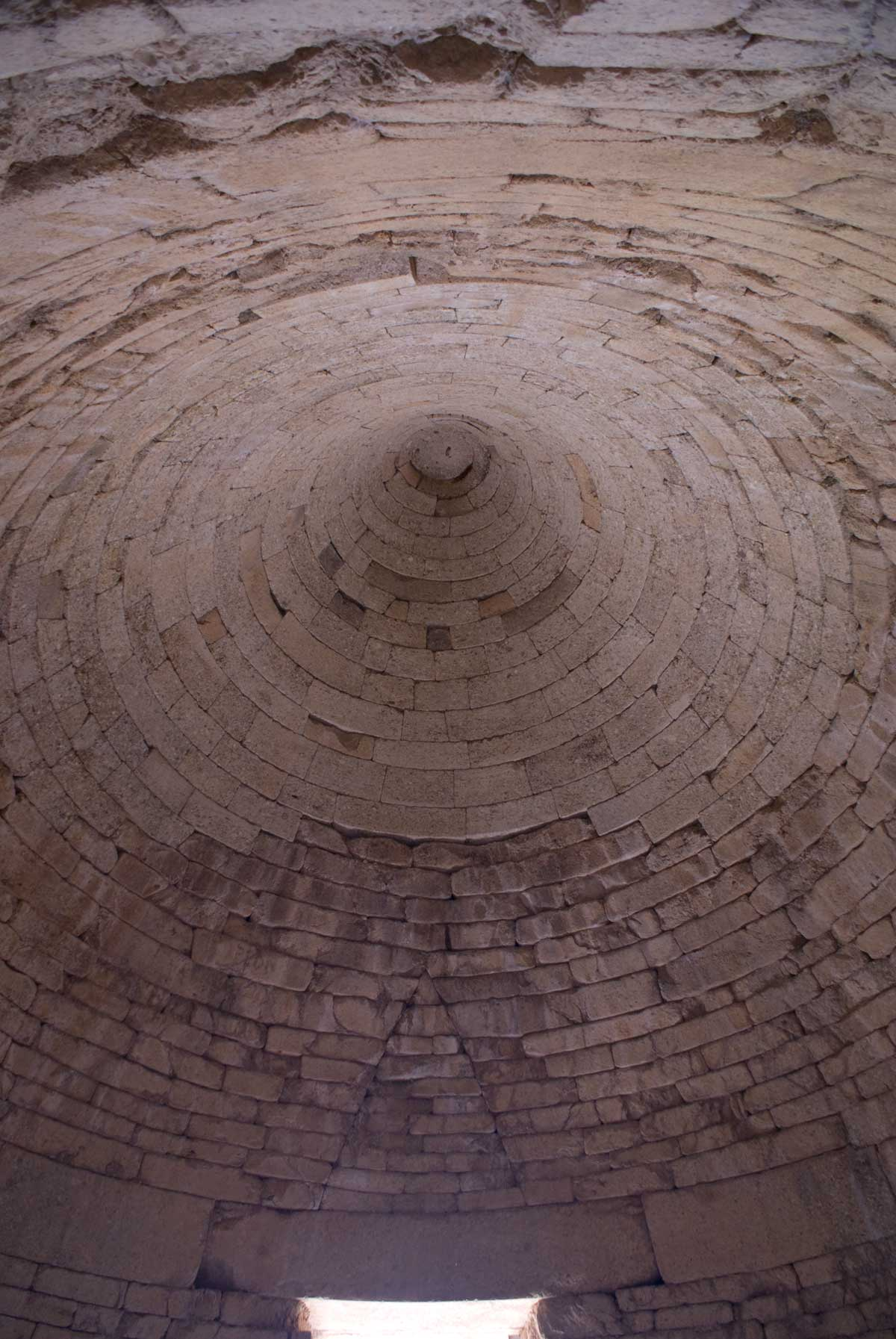 Inside the tomb of Clytemnestra.